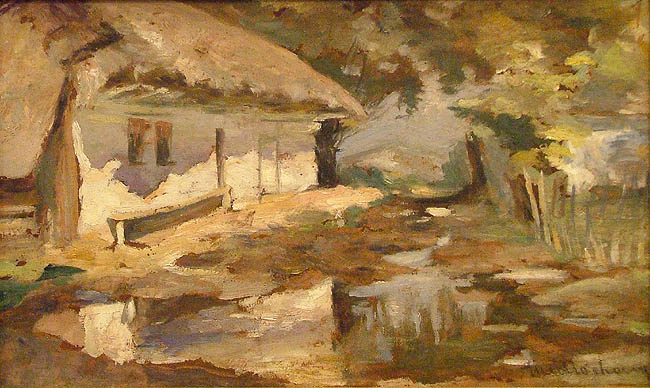 Jan Wojnarski - House between trees